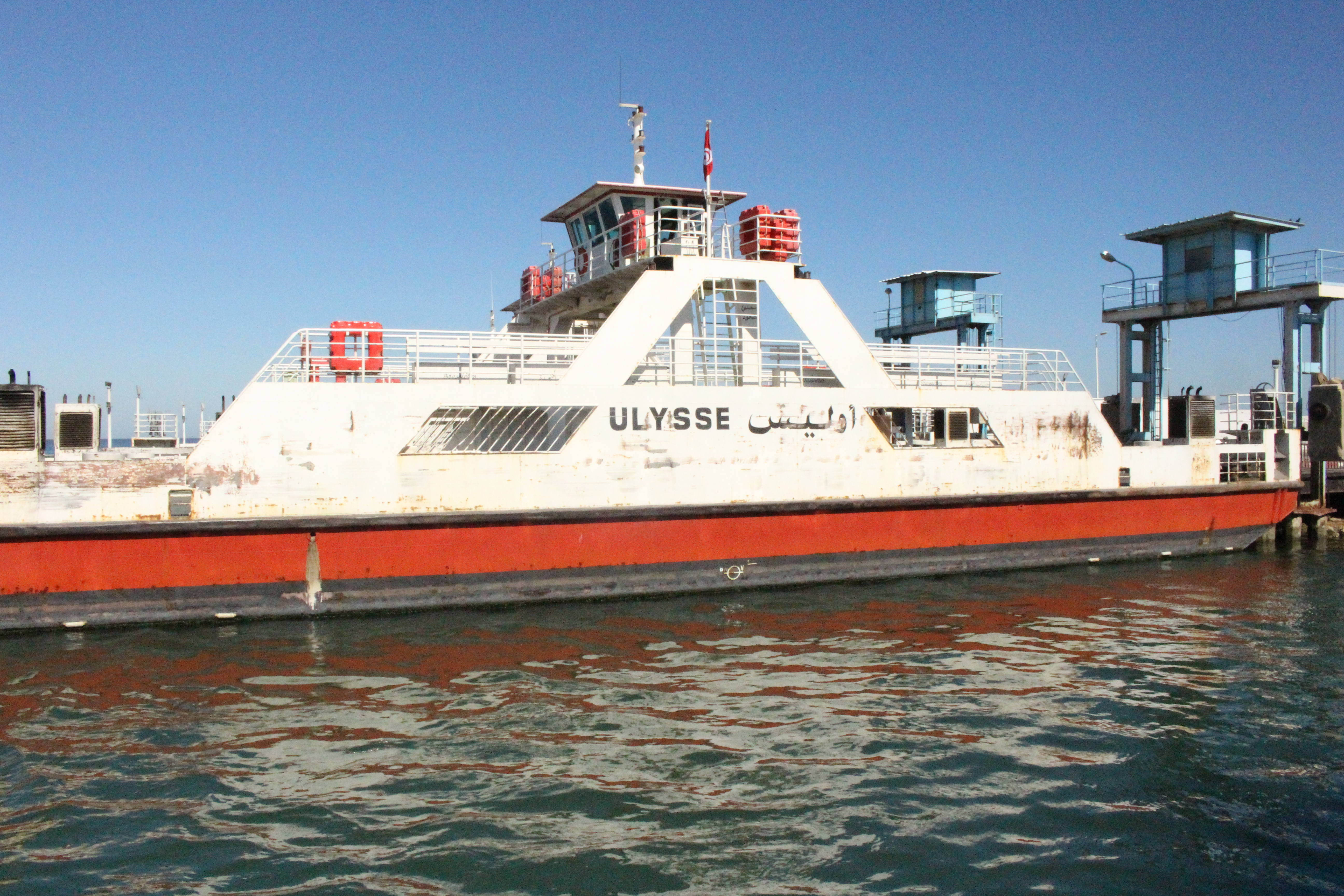 Bac Djerba Ulysse This is an image with the theme "Africa on the Move or Transport" from: Tunisia